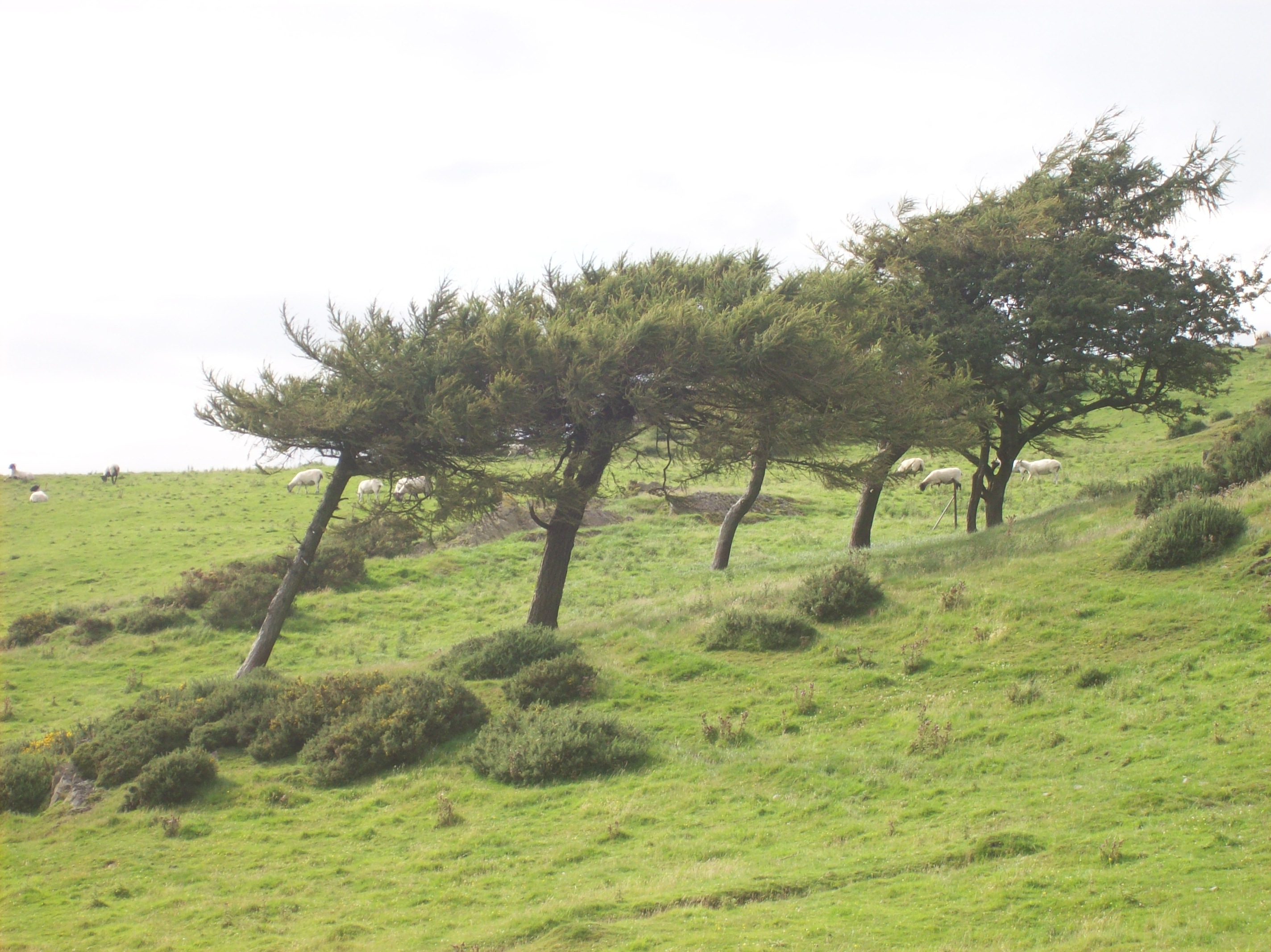 Effect of wind on trees (Larix decidua). Walking around Hoad Monument.